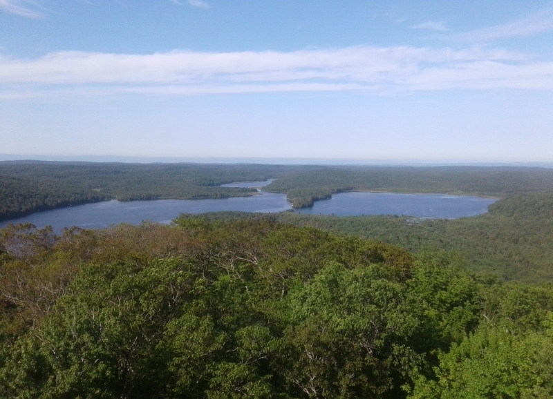 View of west end of Canada Lake, Lily Lake, and West Lake from Kane Mountain. Also shown is the source of Sprite Creek which starts at Canada Lake. Taken June 23, 2019.